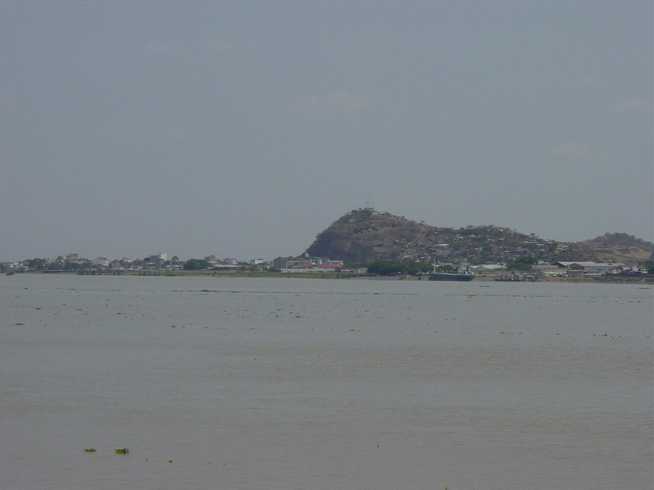 View on the city of Durán from Guayaquil taken by user:Mazbln on December 8, 2004